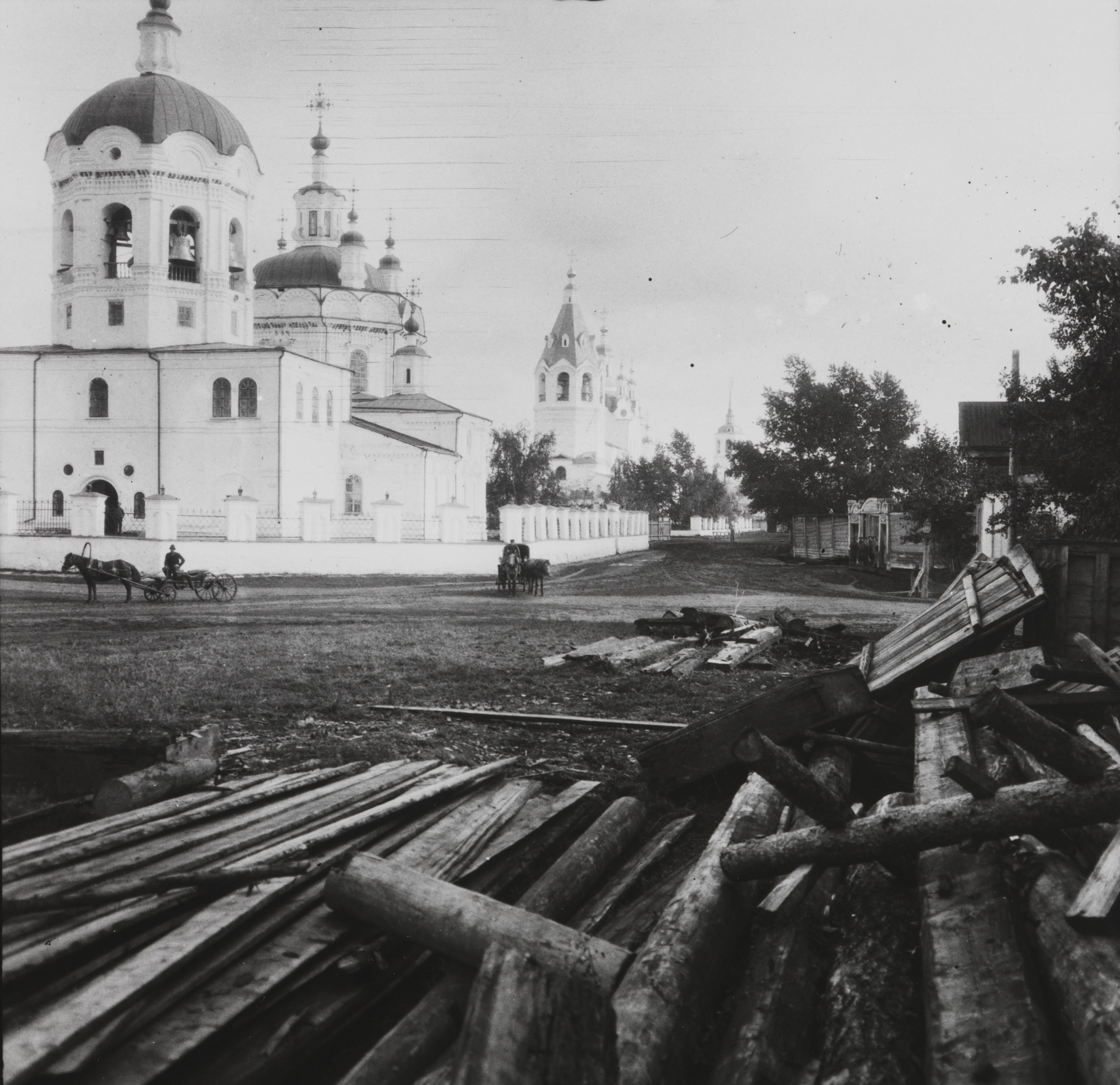 View toward the church. In the middle of the picture is a crate wagon that was used for the journey further on to Krasnoyarsk. One of the pictures from the journey to Siberia between Aug. 2 and Oct. 26, 1913.